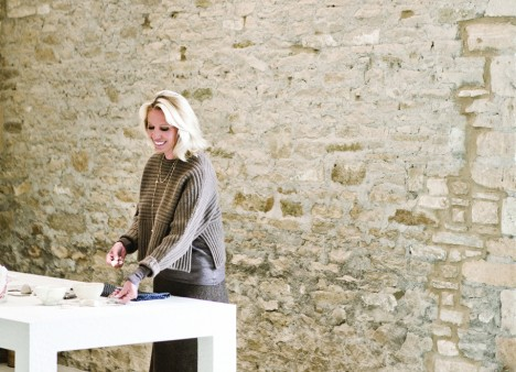 Lady Bamford, at The Haybarn